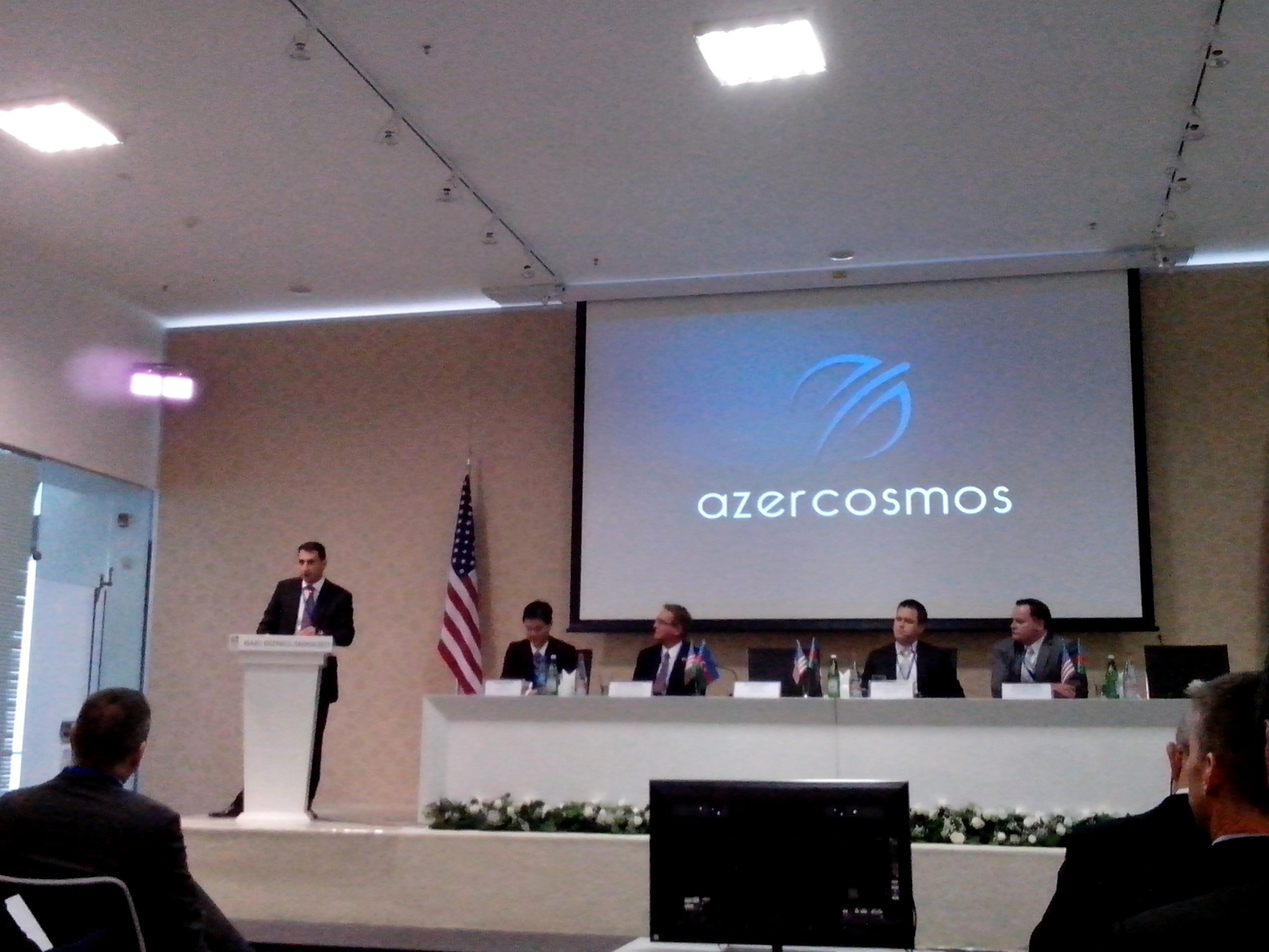 Azerbaijan-U.S. ICT Forum